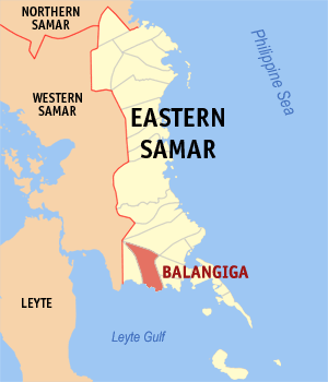 Map of Eastern Samar showing the location of Balangiga